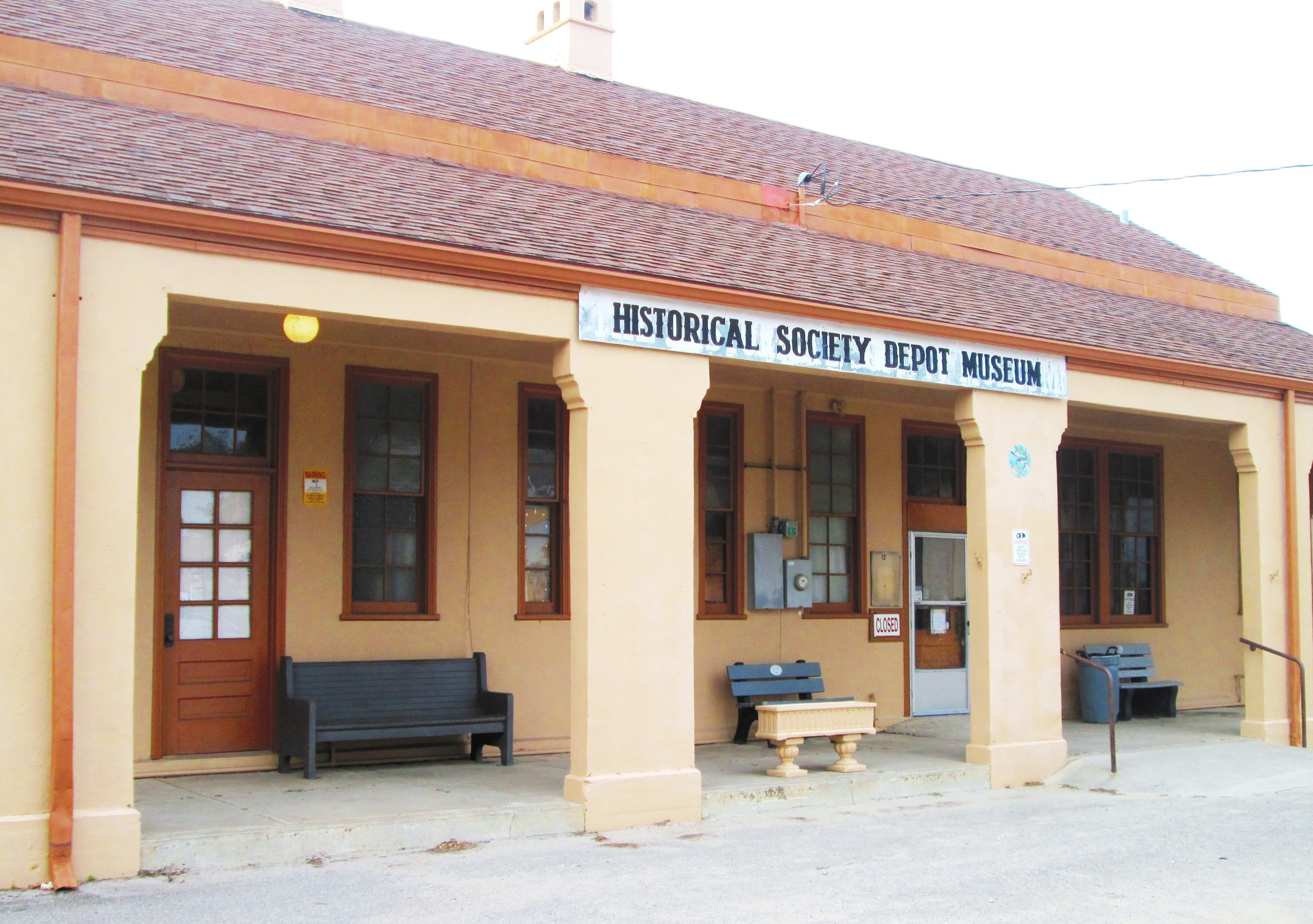 A view from the south of the Old Lake Placid Atlantic Coast Line Depot, now the Historical Society Depot Museum of the Lake Placid Historical Society. Located at 12 East Park Street in Lake Placid, Florida, the depot was built in 1926 and saw passenger service until the mid-1950s, although freight service continued until the 1970s. It was added to the National Register of Historic Places in 1993.